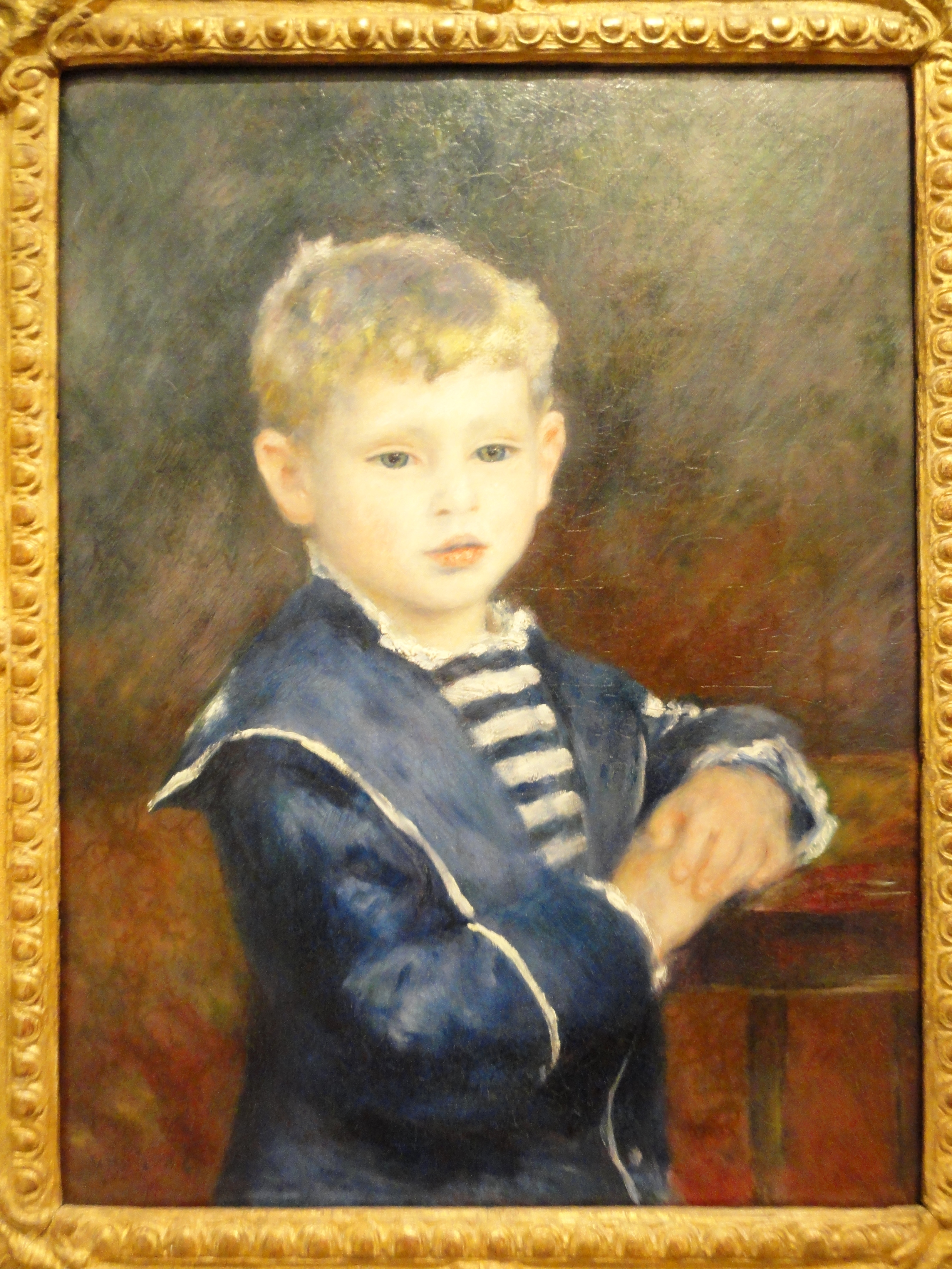 Exhibit in the Nelson-Atkins Museum of Art, Kansas City, Missouri, USA.